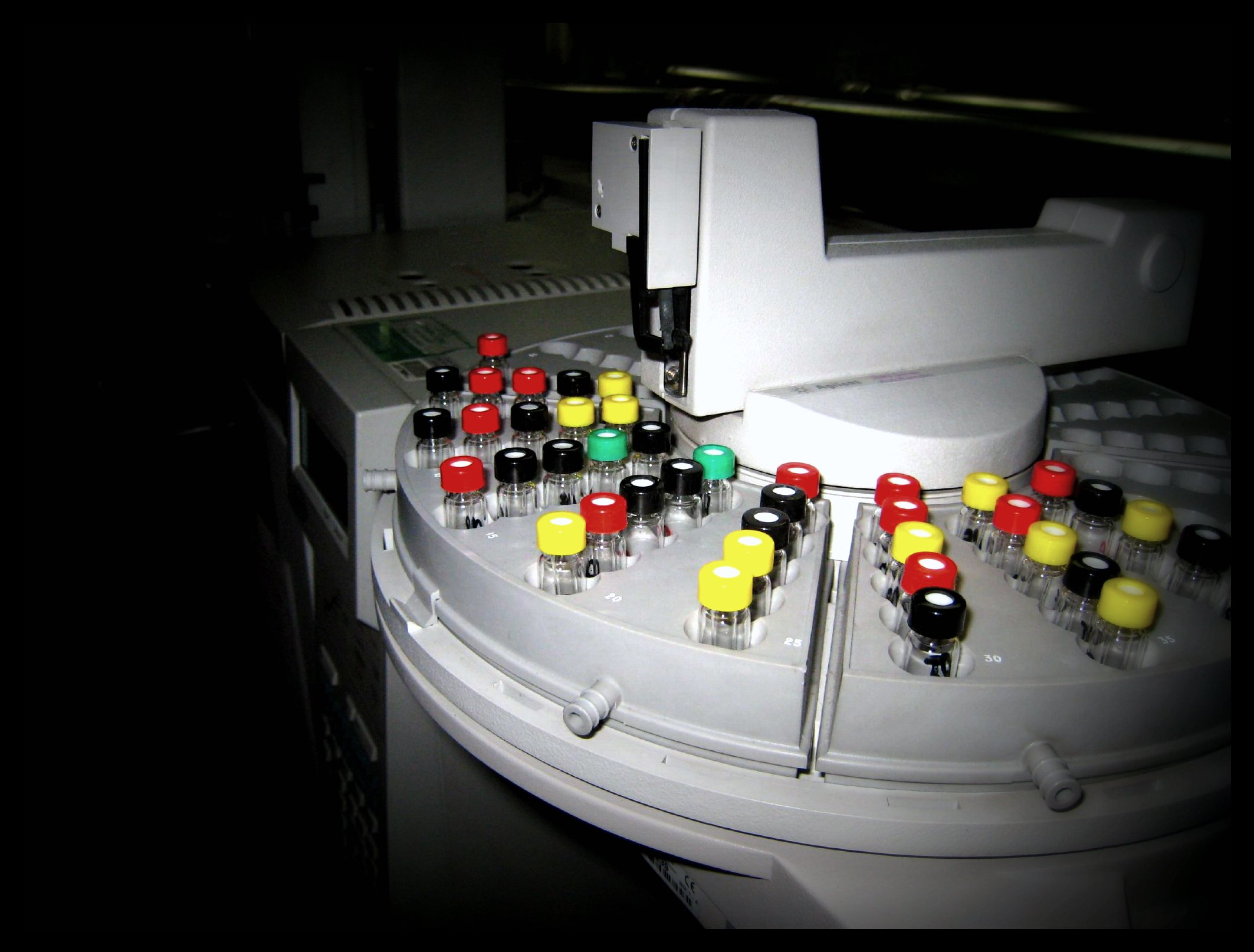 Gas Chromatograph Autosampler